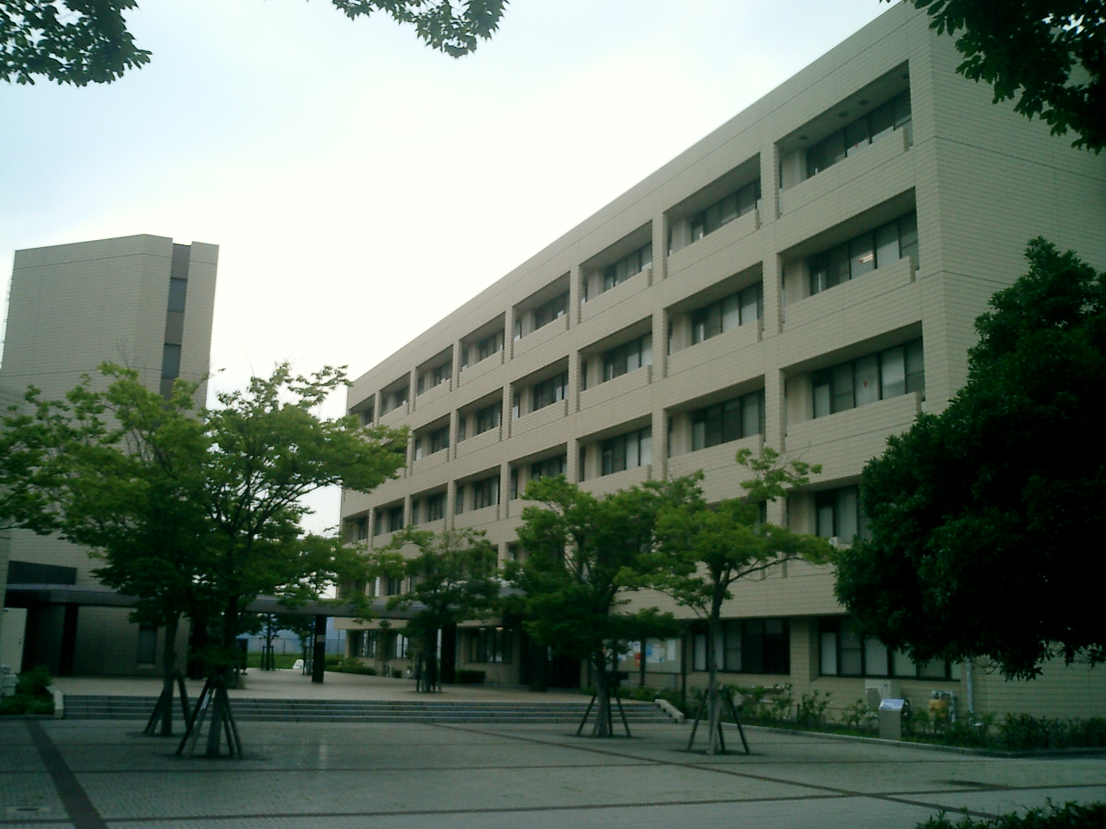 Economy of Wakayama University, JAPAN